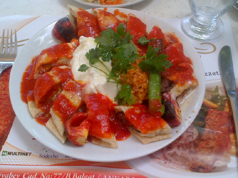 Un plato turco, erroneamente llamado "Beyti kebab" en En:WP.